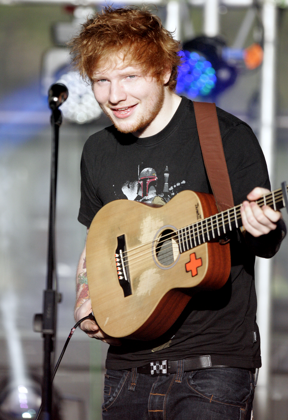 Ed Sheeran